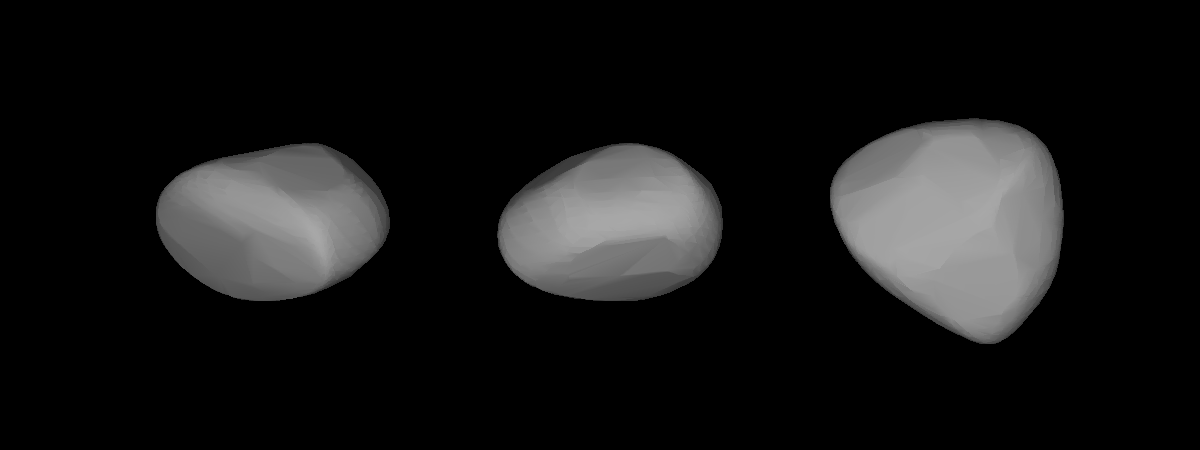 A three-dimensional model of 1580 Betulia that was computed using light curve inversion techniques.